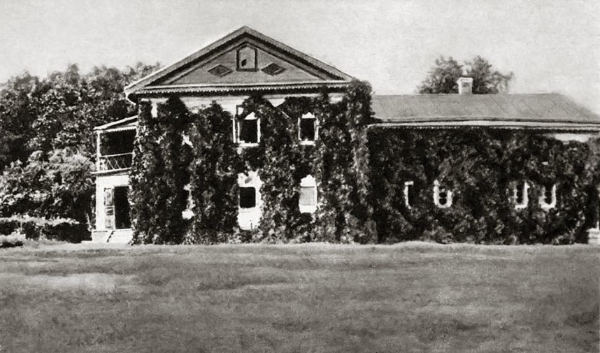 Ivanovka, estate of Sergei Rachmaninoff, near the Tambov province in Russia.